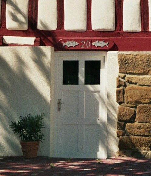 Flein_Ilsfelder_Str._Fischerhaus_1592_Tür_mit_Reliefbilder_von_Fischen.JPG